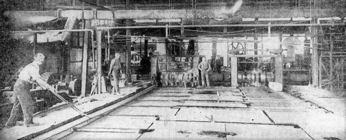 Rail Mill, Eskbank Ironworks, also known as the 27-inch Mill c.1914. On the right is a hot ingot of steel which is about to pass through the roughing mill stand. The finishing stand is on the left and the man on the left is manipulating a rail which has been rolled in the finishing stand.